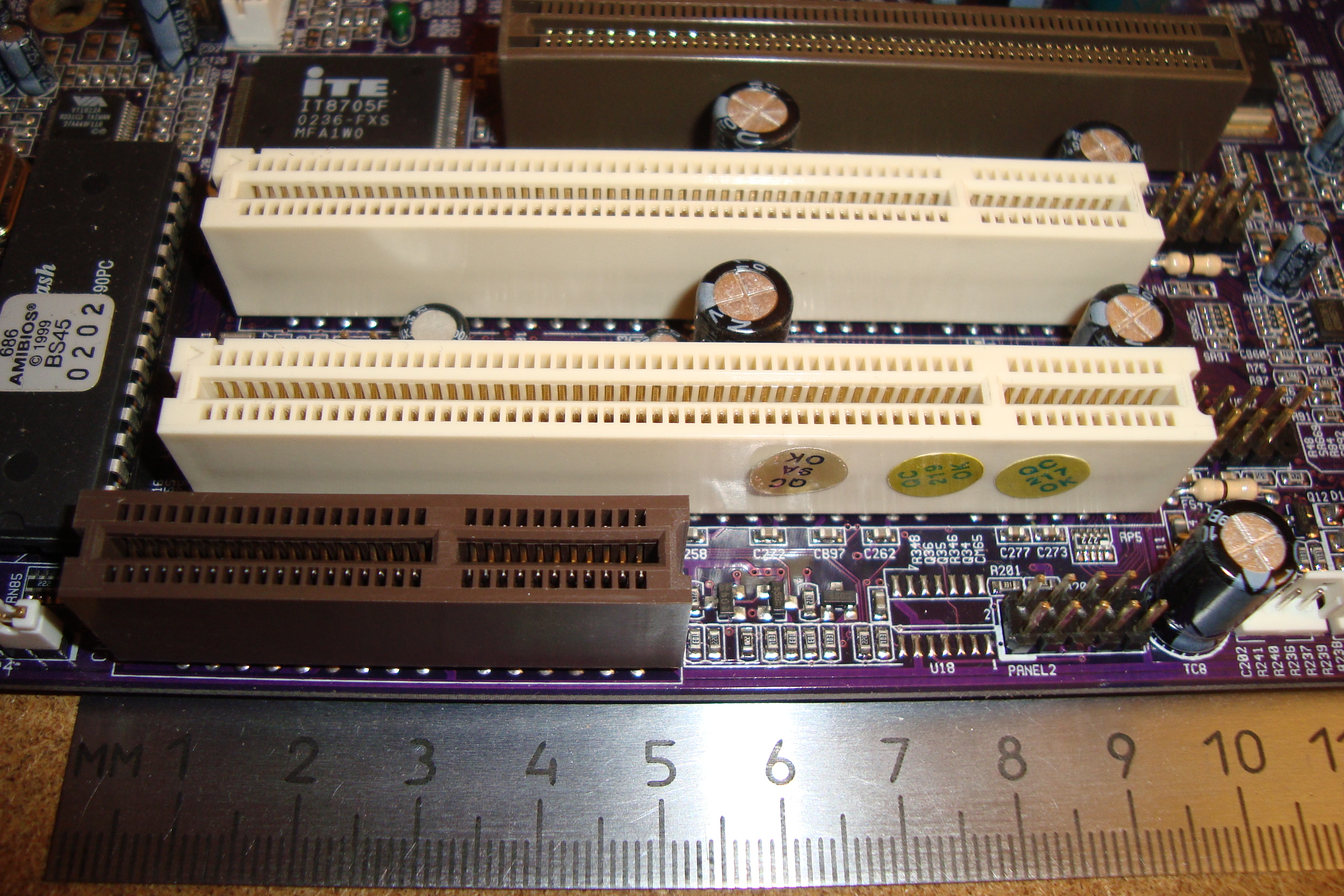 Communications Networking Riser (CNR) slot (brown, at bottom) next to PCI slot (white) for comparison, on an old ECS P4VMM2 1.3 motherboard.